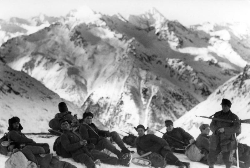 On 22 December 1942, German soldiers from the mountain troops, in the snow having a rest, Caucasus, Soviet Union.